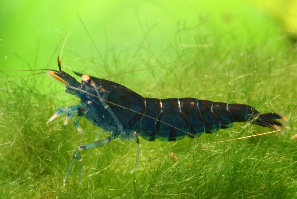 Caridina cf. cantonensis deep blue tiger is a freshwater shrimp with a deep blue color and orange eyes.